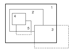 A figure showing a possible placement of windows.